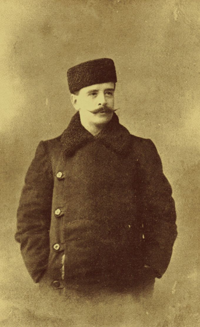 Photo of Riccardo Drigo (1846-1930). Chef d'orchestre of the Imperial Italian Opera of St. Petersburg (1878-1884); Kapellmeister of the St. Petersburg Imperial Ballet (1886-1917); Chef d'orchestre of ballet and Italian opera performances of the Imperial Mariinsky Theatre Orchestra of St. Petersburg (1886-1917). Noted composer of ballet music, conductor, and pianist.